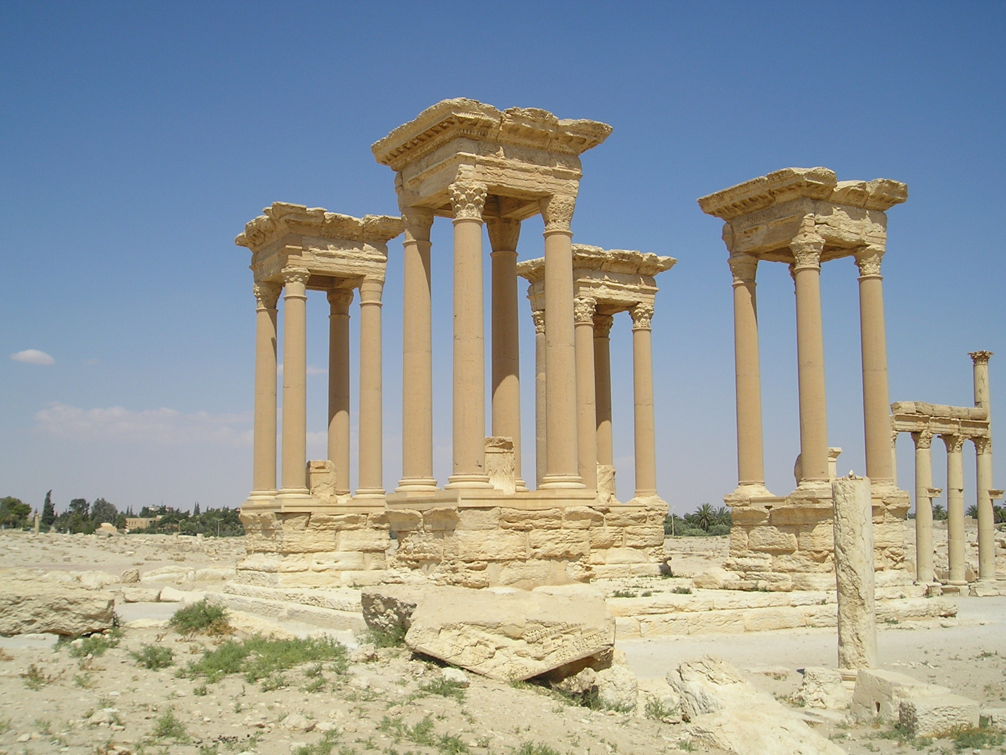 Palmyra , Syria - Tetrapylon